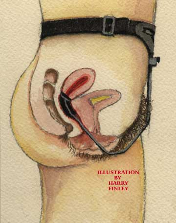 Very early American menstrual cup patent, 1867